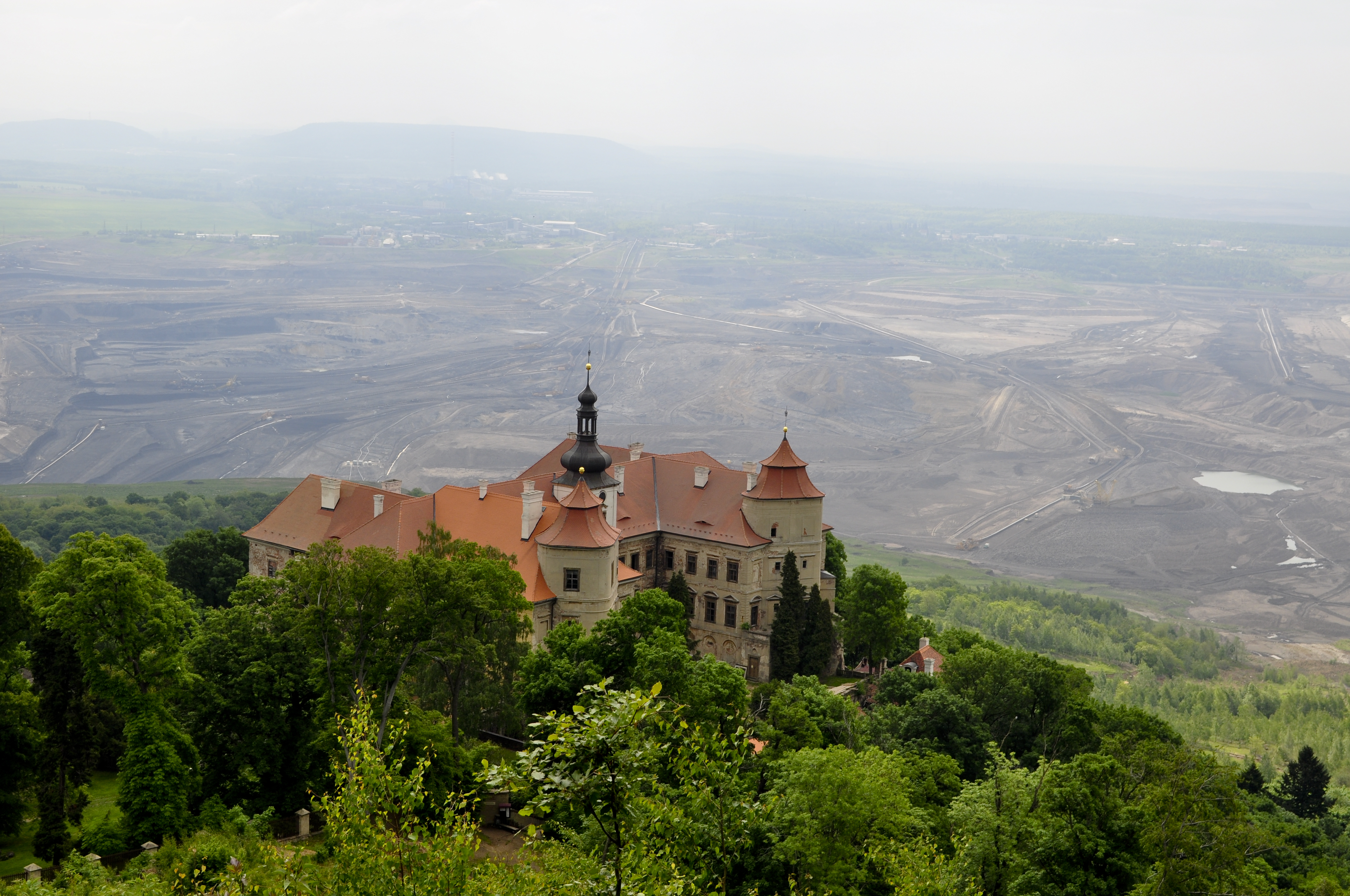 Jezeří with open pit mine Lom ČSA in background